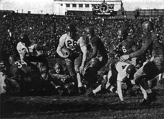 The University of Pittsburgh's Ted Konesky (31) throws a block that springs Ben Kish (26) in a 24-7 victory of the Pitt Panthers over SMU at PittStadium